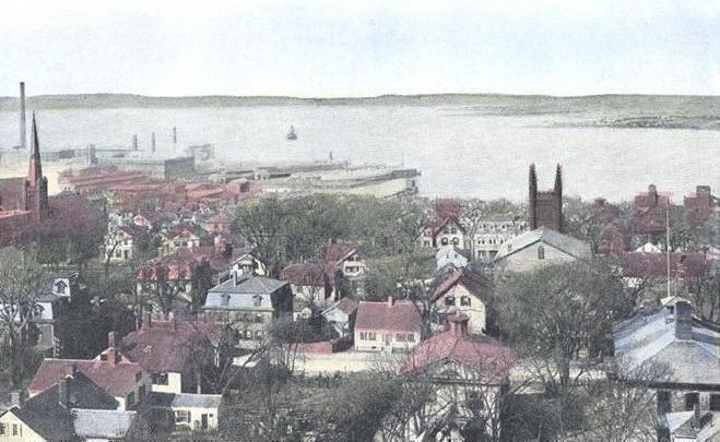 View of Bay, Fall River, MA; from a 1905 postcard. Looking west from old high school.